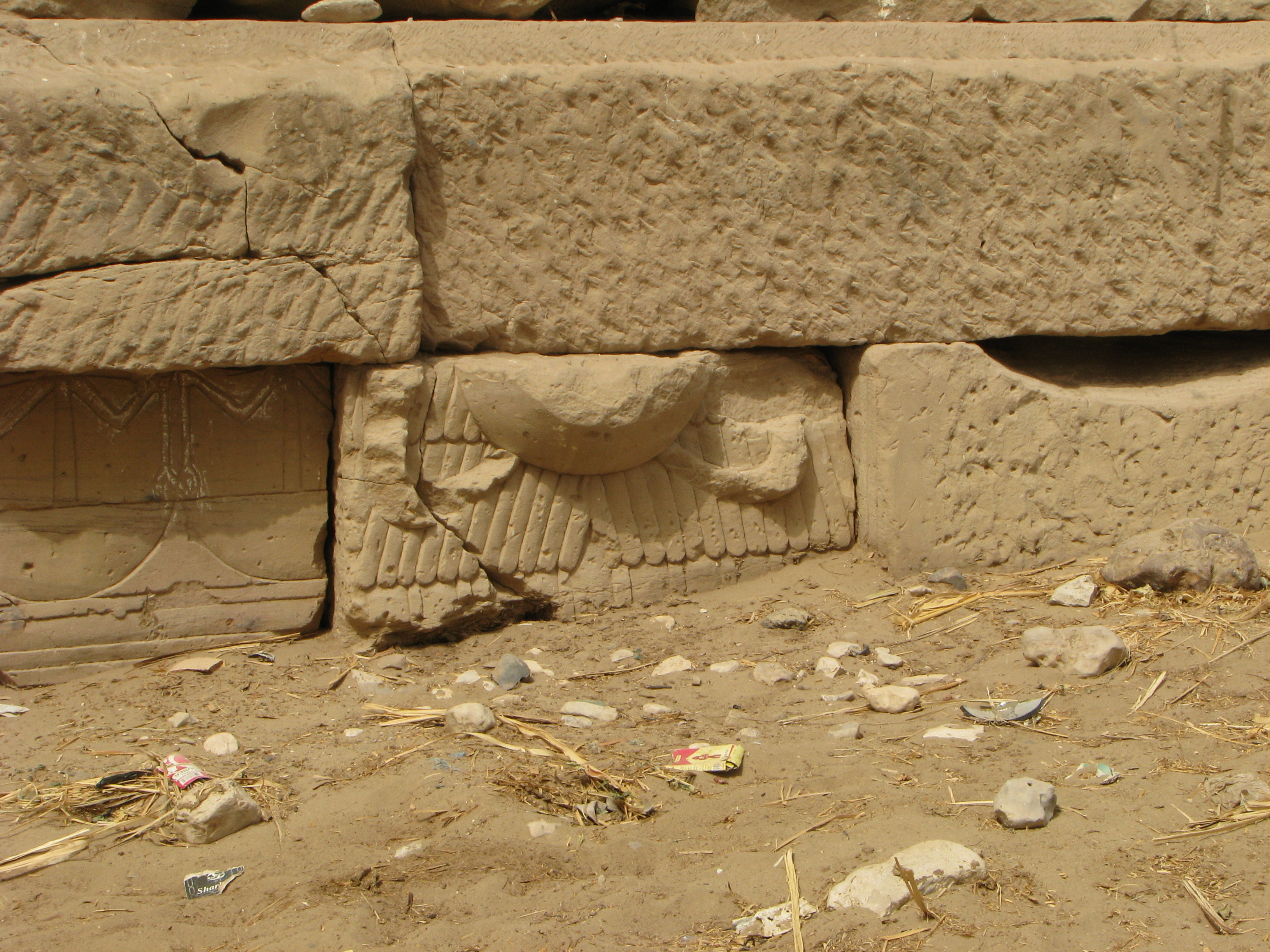 Reused blocks of possibly Medinet Habu in the outer wall of Deir el-Shelwit (alternate spelling: Deir el-Shalwit, Deir Chalouit)